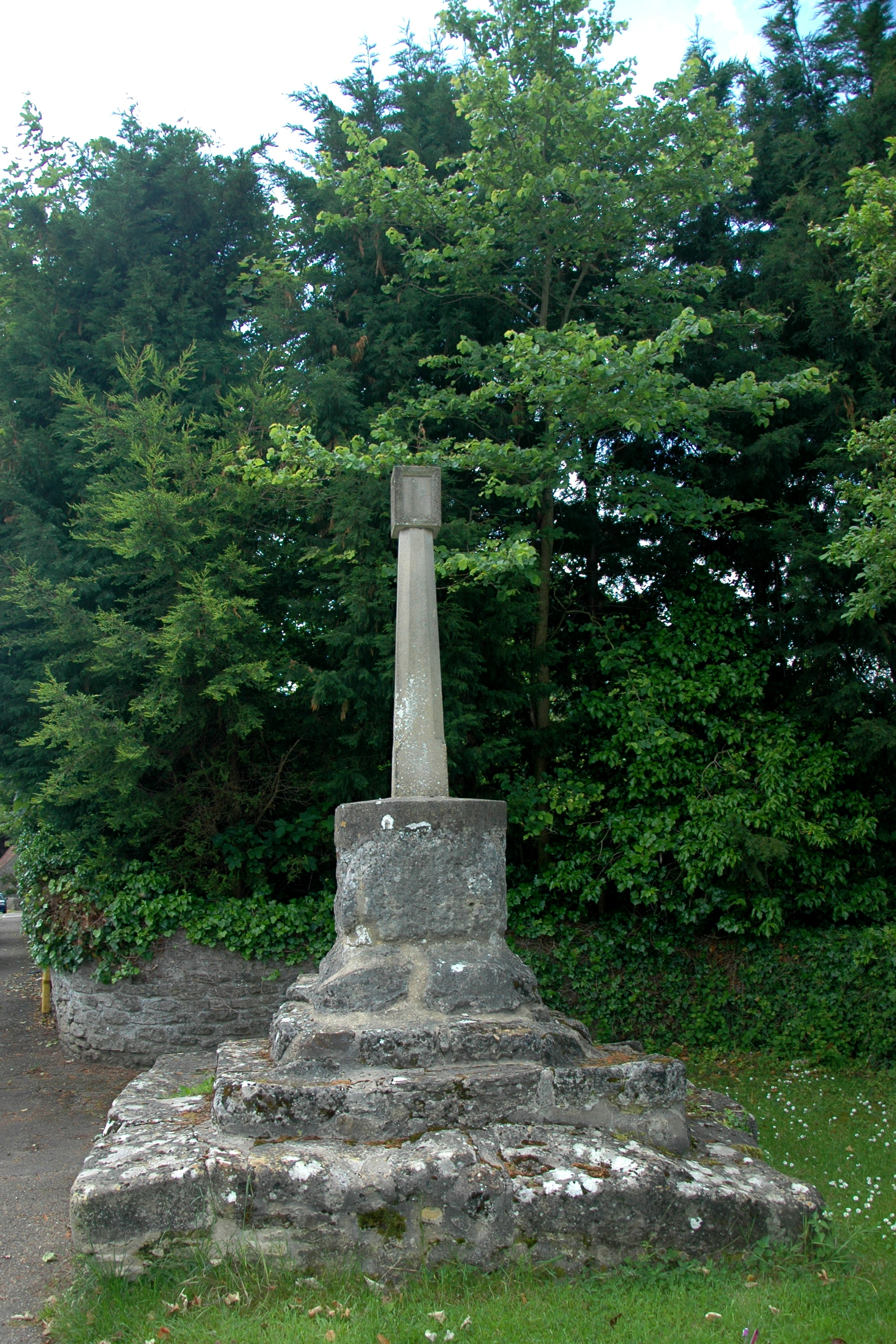 Stone cross in The Green, Garsington, Oxfordshire. The base is Mediæval; the shaft and top are 20th-century.